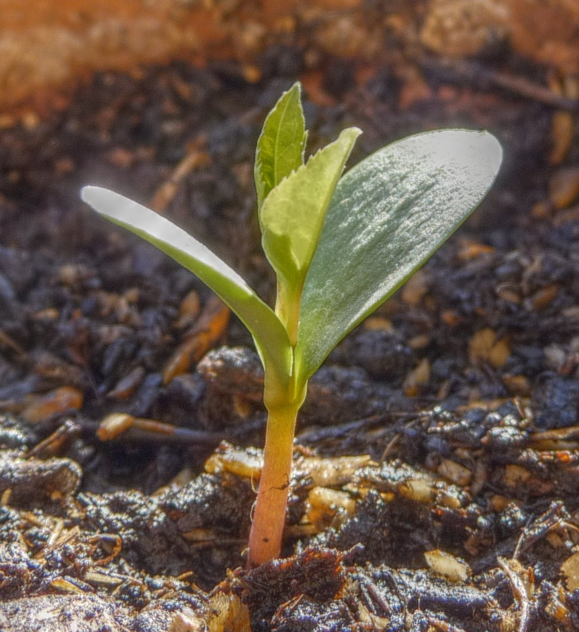 apple seedling idared, HDR